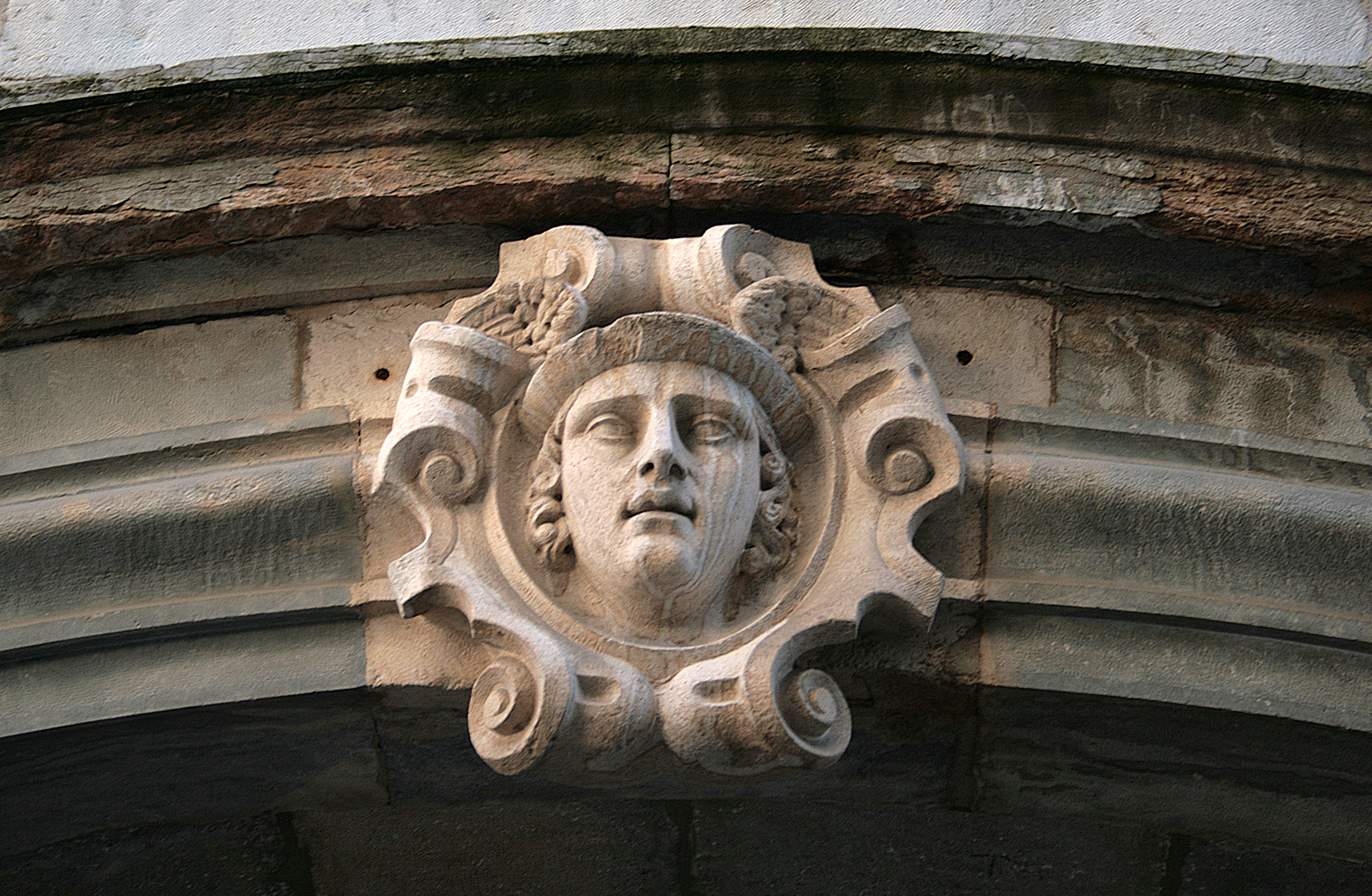 Besançon (Doubs - France), rue Gustave Courbet - Mascaron of the keystone of a gateway entry.